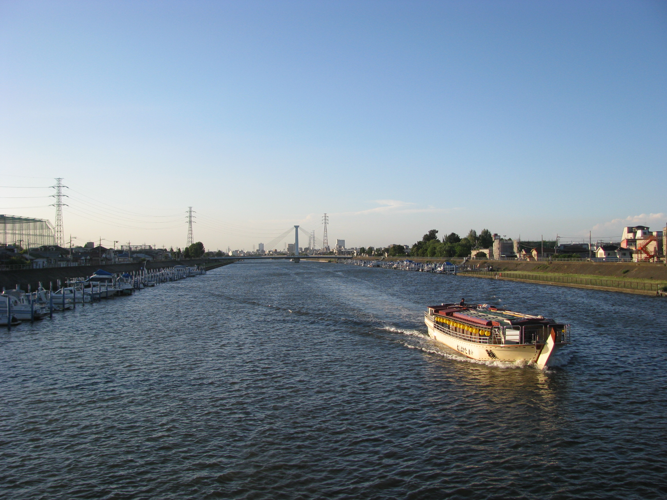 The Shin Naka-gawa. A view upstream from the Ichinoe-bashi (bridge) in Edogawa, Tokyo, Japan.